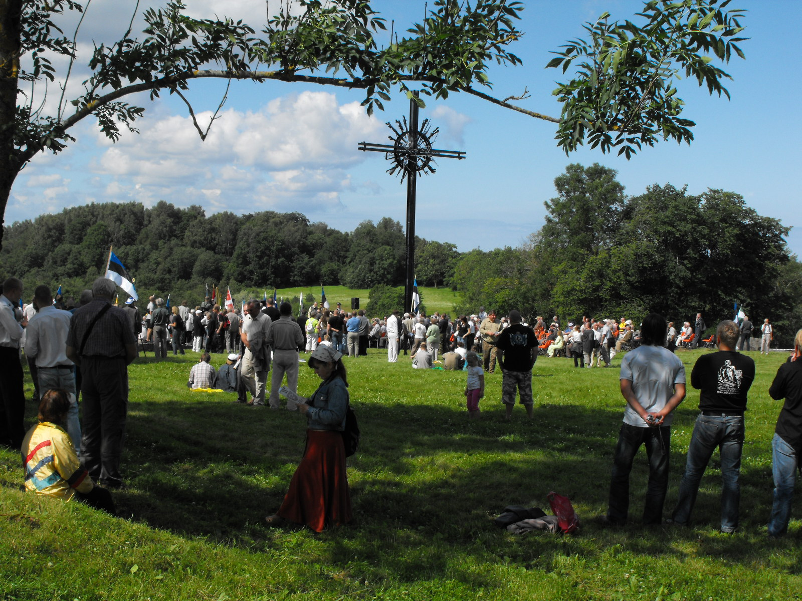 Memorial service on the 65th anniversary of the battles on the Sinimäed hills in 1944, where a number of veterans attended including including members of the W:20th Waffen Grenadier Division of the SS (1st Estonian).